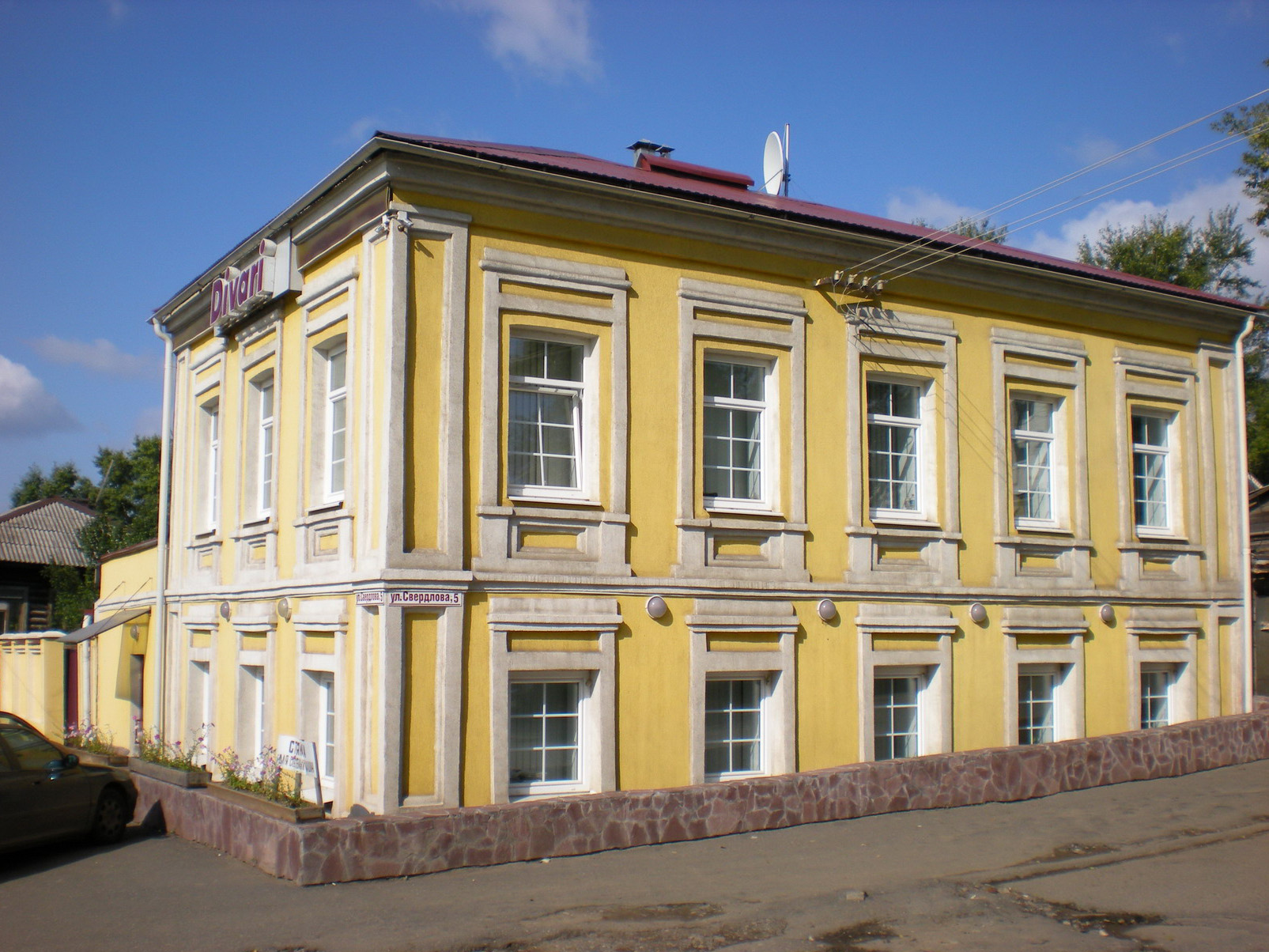 Government house of Izhevsk-Upland volost (Izhevsk, Sverdlova Street, 5) Удмурт: Ижевско-Нагорной волостьлэн кивалтонниезлэн юртэз (Иж кар, Свердлов урам, 5)